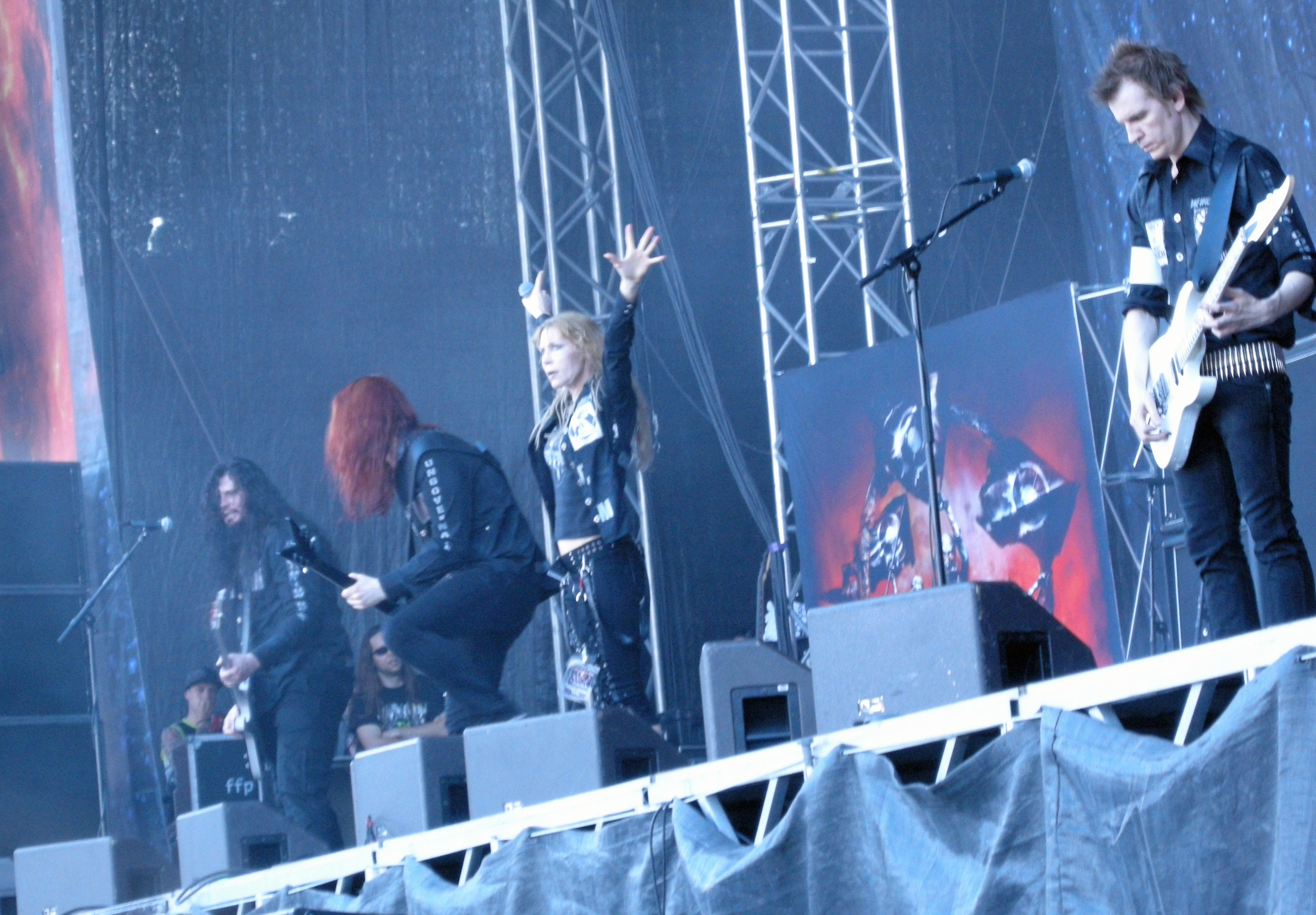 Arch Enemy at Sonisphere Festival, Stockholm, Sweden 2011